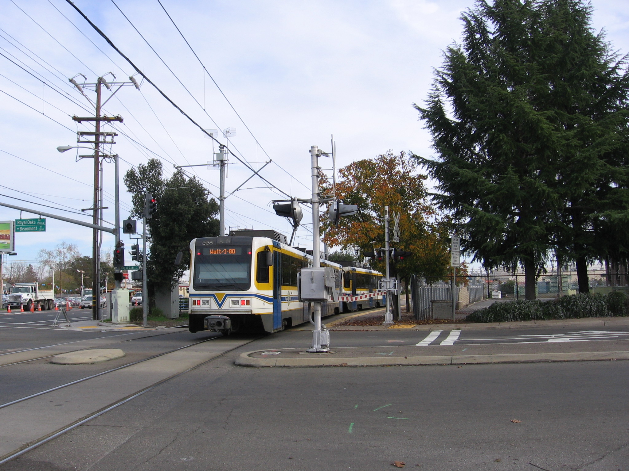 The Royal Oaks (Sacramento RT) light rail station in Sacramento, California, USA. View looking east across Royal Oaks Drive.